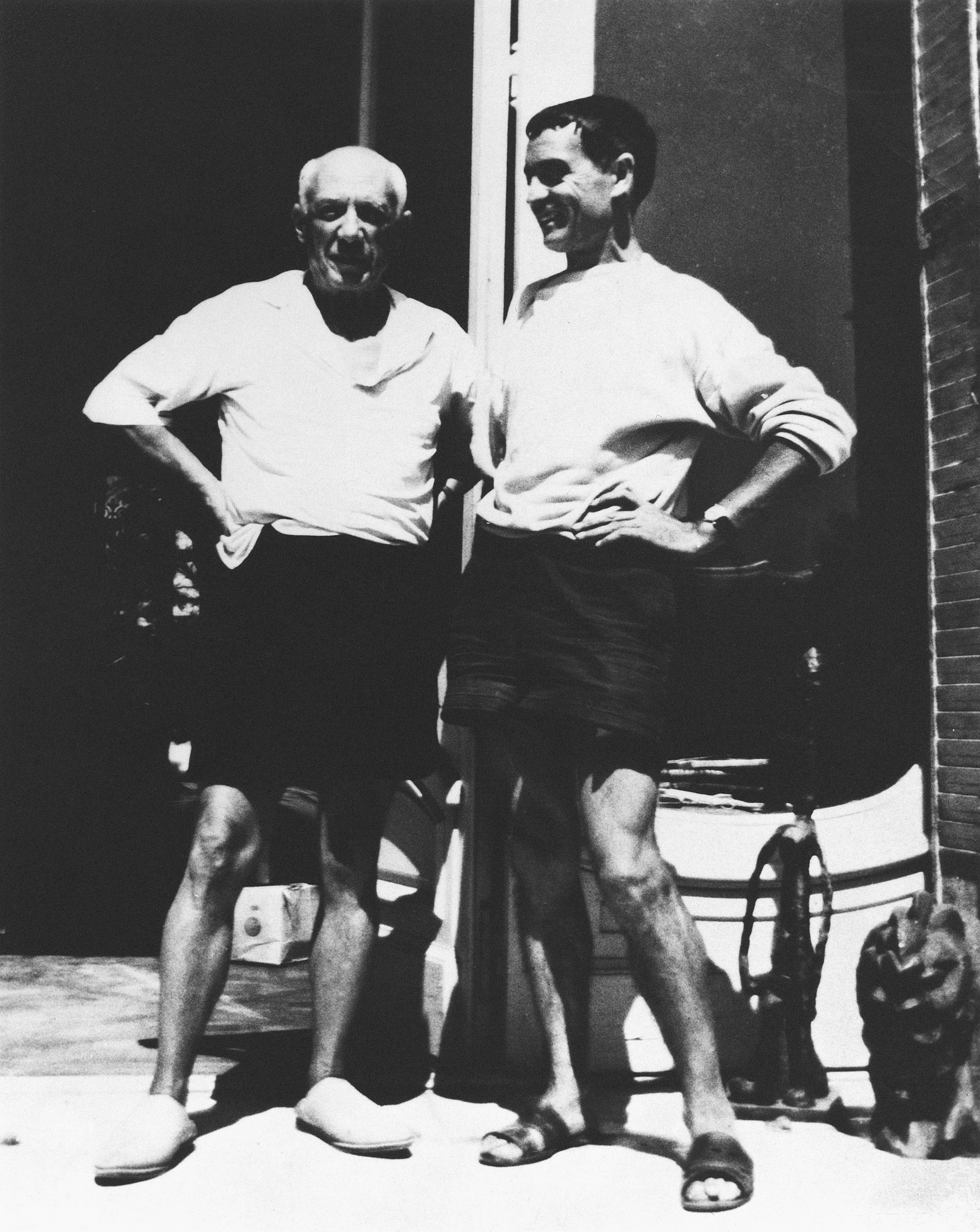 Spanish painter Pablo Picasso meets Swiss painter René Bernasconi in the South of France